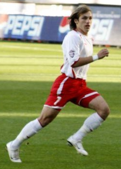 Gogita Gogua in action FC Spartak Nalchik